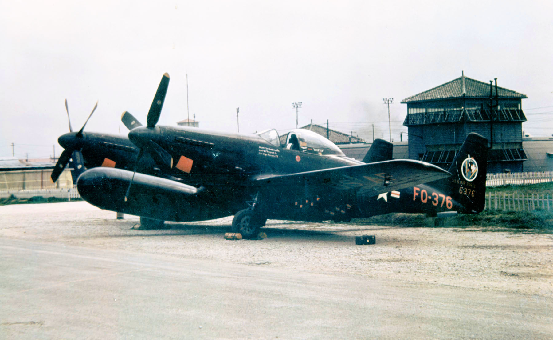 F-82G Twin Mustang s/n 46-376 68th Fighter Squadron (All Weather) based at Itazuke Air Base,Japan. (U.S. Air Force photo)